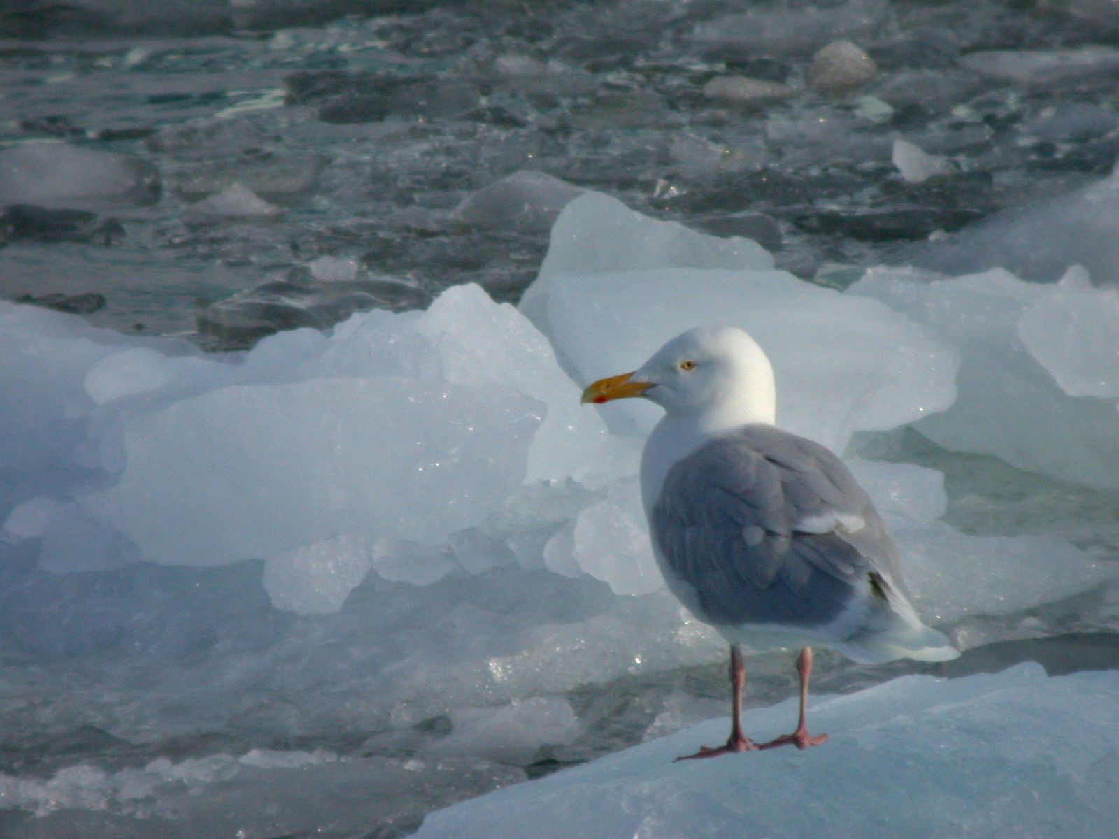 Glacous Gull Larus hyperboreus, Spitzbergen, Norway. The common large gull breeding in the arctic regions.